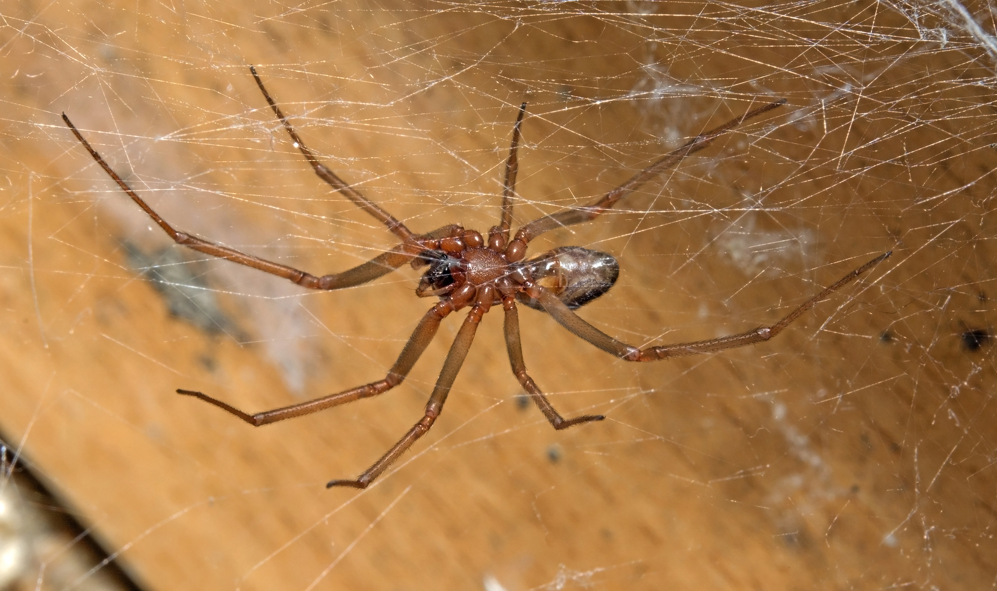 Steatoda grossa ♀ (C. L. Koch, 1838) - Compiègne - France